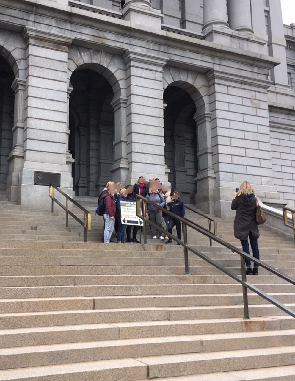 Sight seeing people on steps 15th of west entrance Colorado State Capitol Building